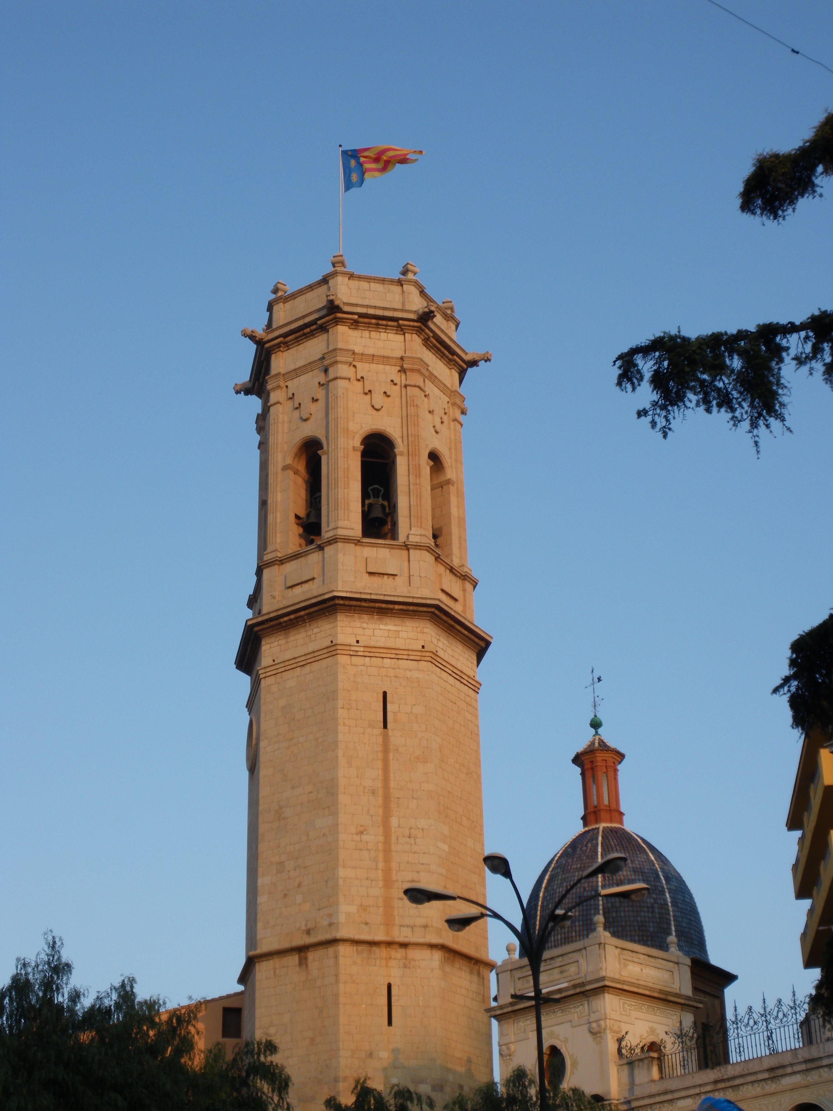 Belfly of Borriana